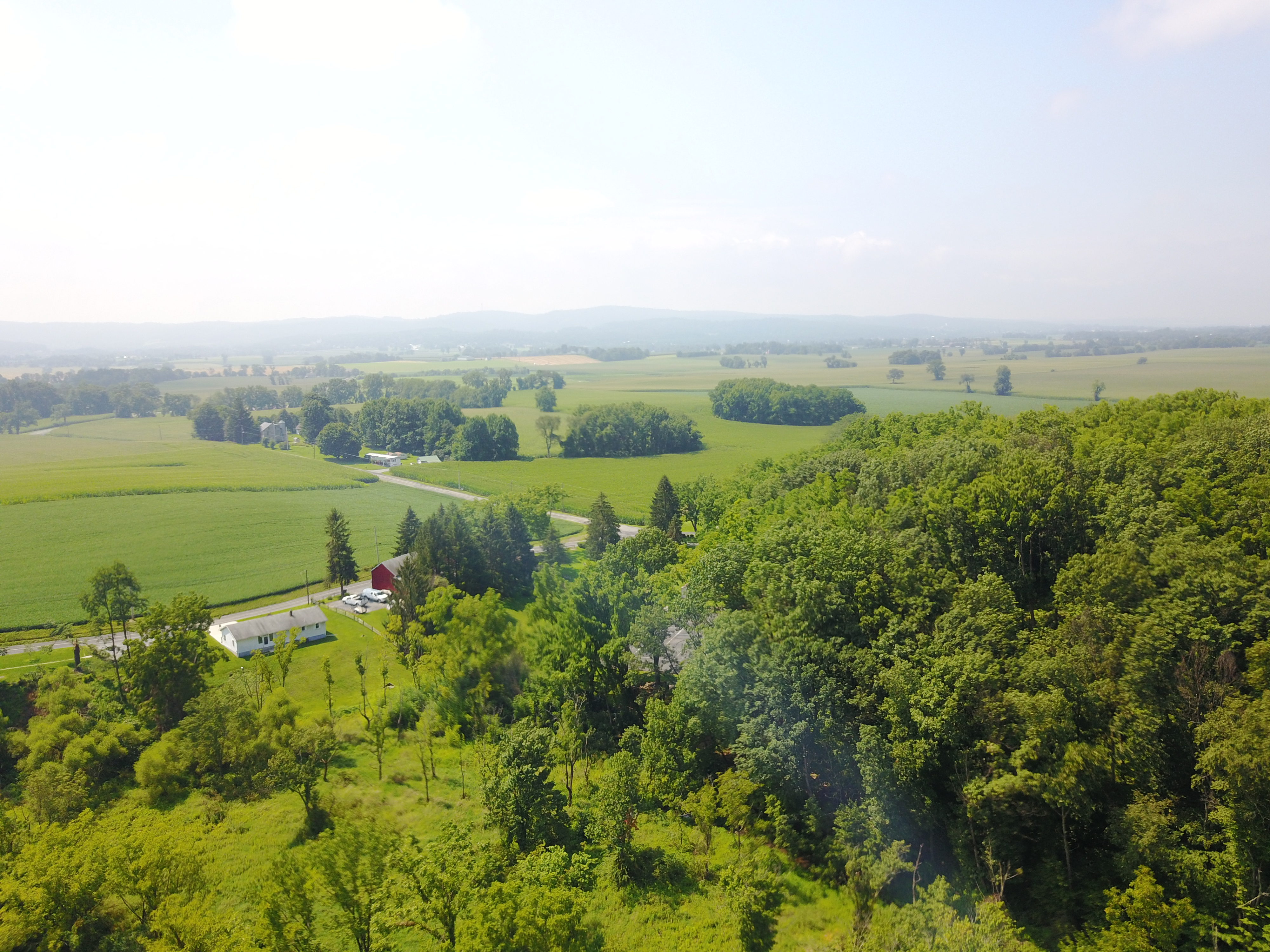 summer green